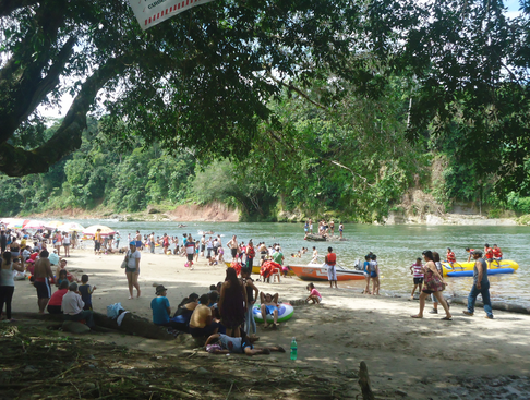 Balneario Natural de Misahuallí